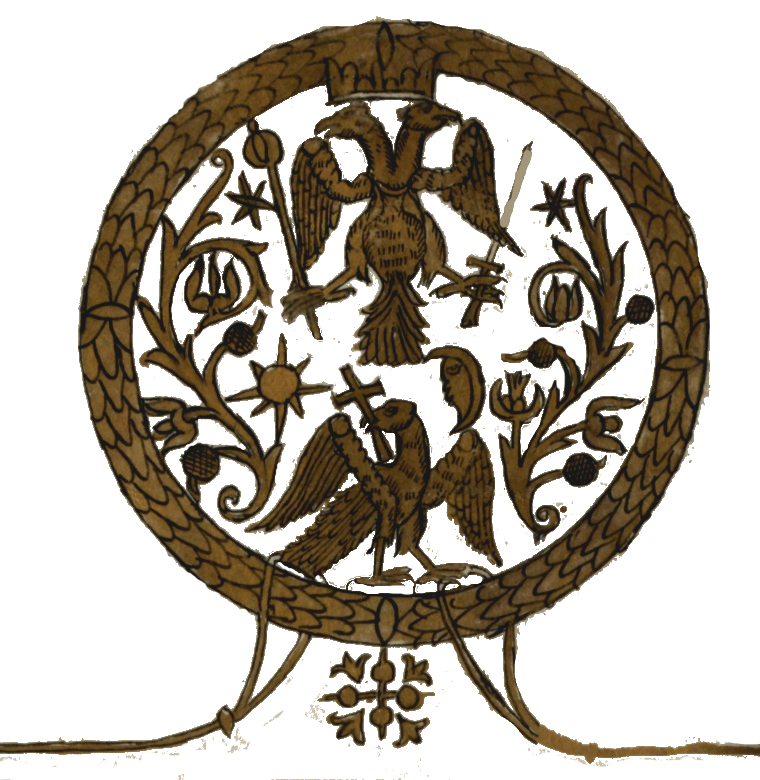 Emblem of Wallachia under Prince Șerban Cantacuzino, one of several variants with the Cantacuzino arms (double-headed eagle) and the Wallachian bird.